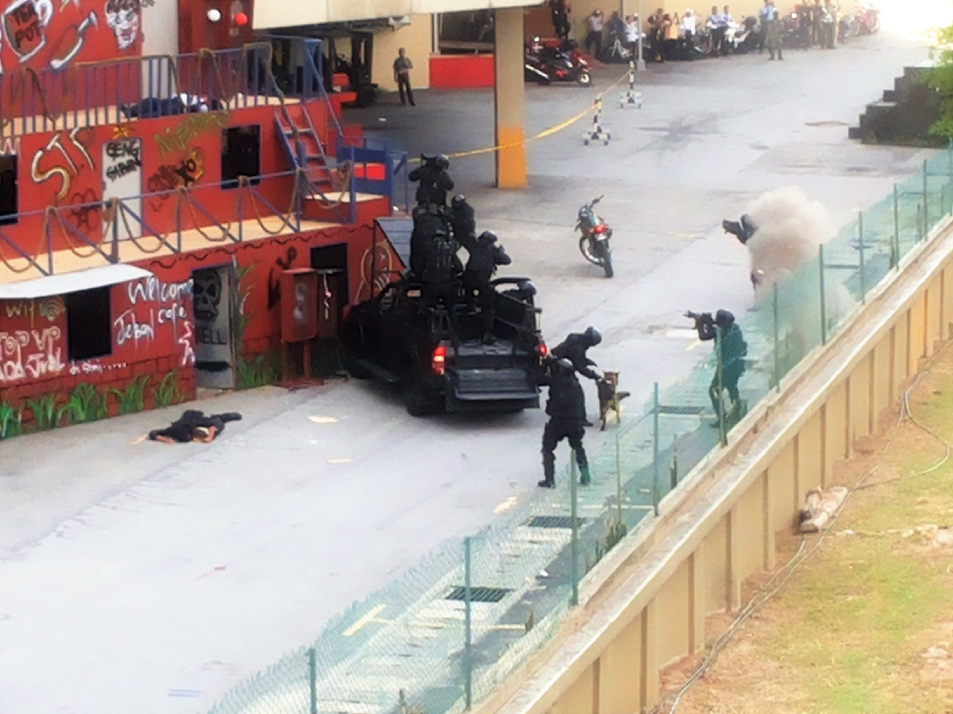 The soldiers from GGK use the assault ladder to stormed the "terrorist hideout" during the Defense Services Asia 2016 or DSA 2016 Exhibition at Kuala Lumpur, Malaysia.